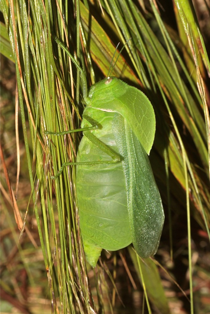 South Africa. Vernon Crookes Nature Reserve.